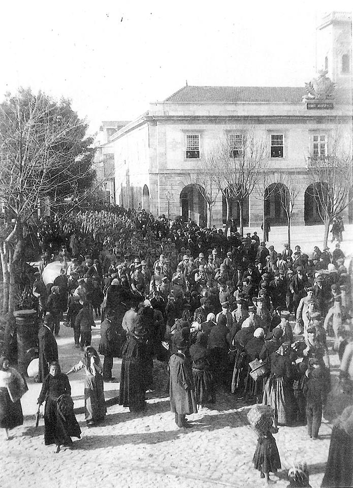 Póvoa de Varzim City Center in 1916. Portuguese military embarking for World War I. This first Battalion was prepared and gathered in nearby Póvoa de Varzim Military Barracks.